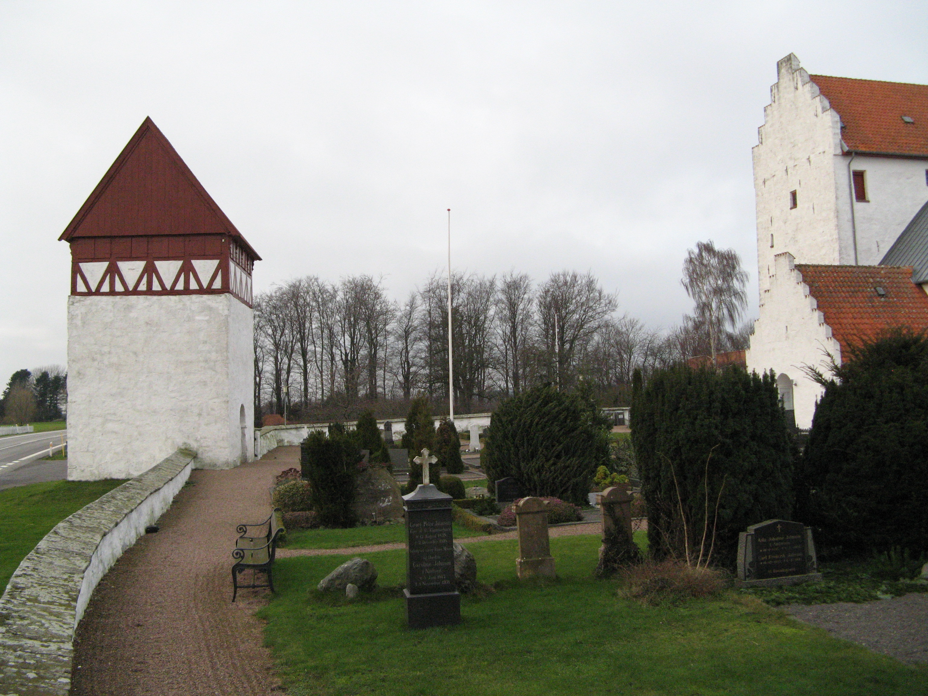 Bodils Kirke, Bornholm